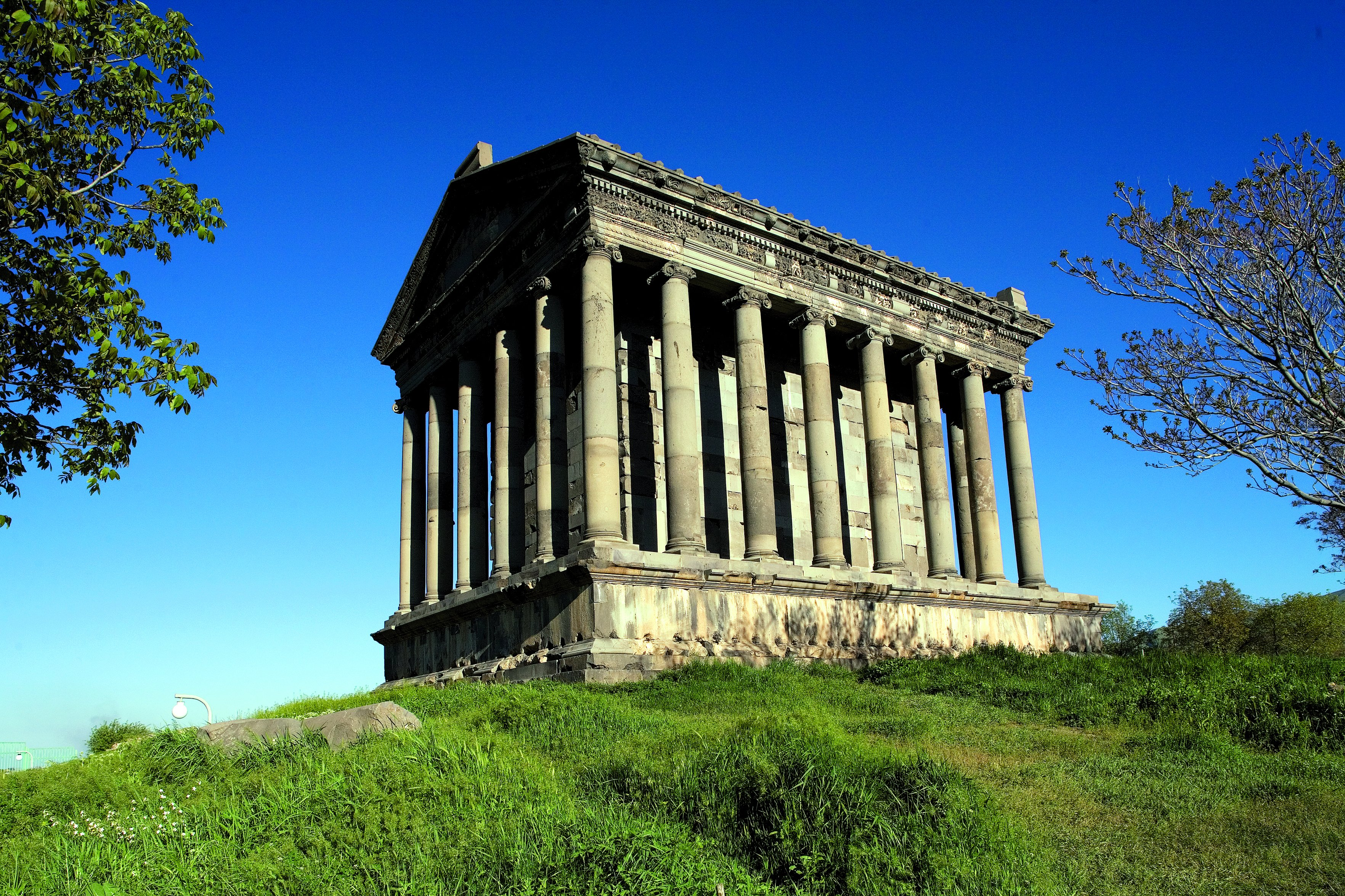 The Pagan Temple in Garni